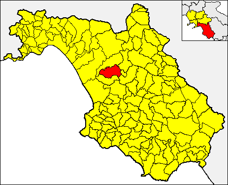 Locator map of the municipality of Altavilla Silentina (red) within the Province of Salerno